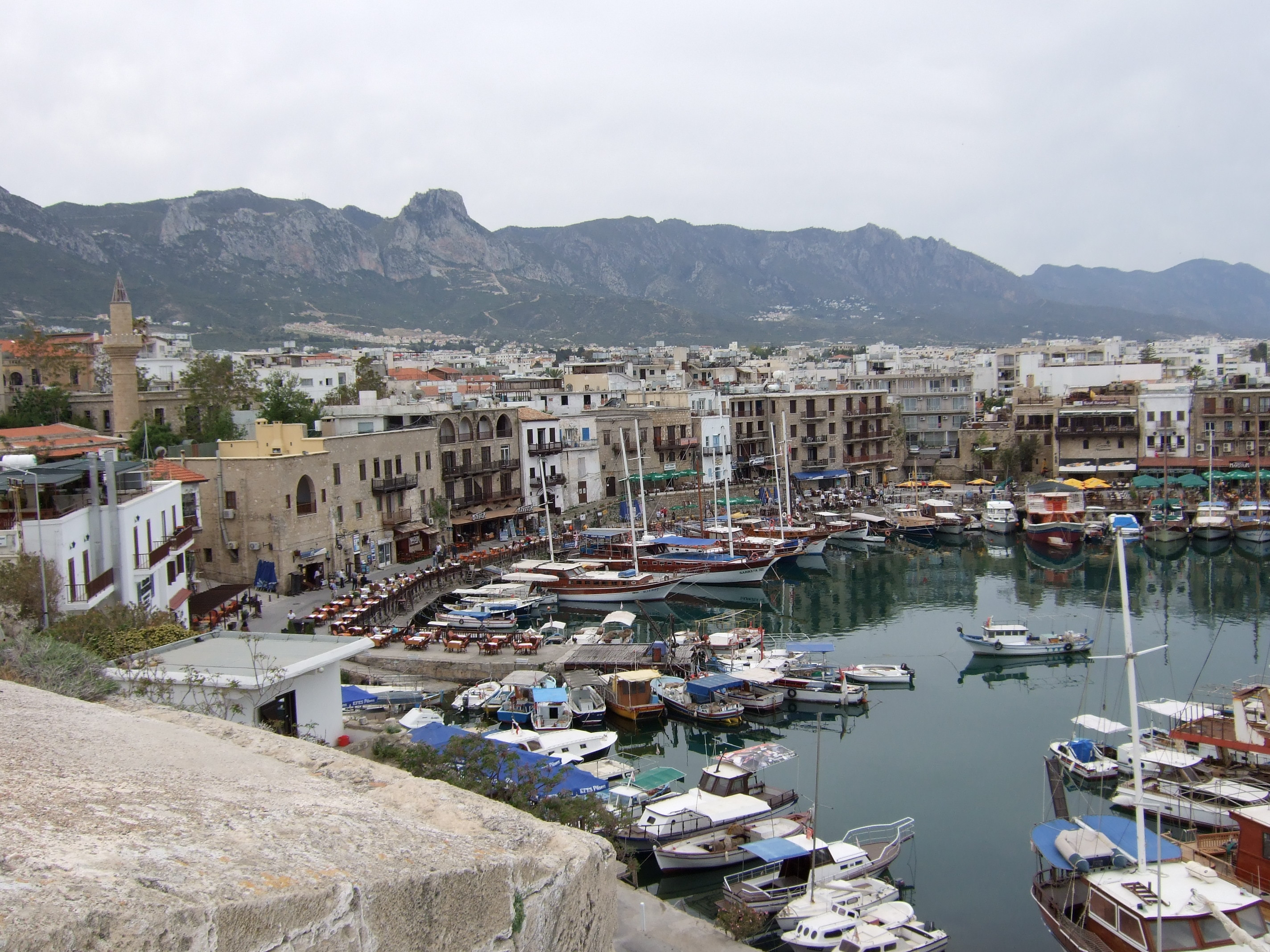 Girne / Kyrenia, North Cyprus, old harbour, view from Kyrenia castle tower